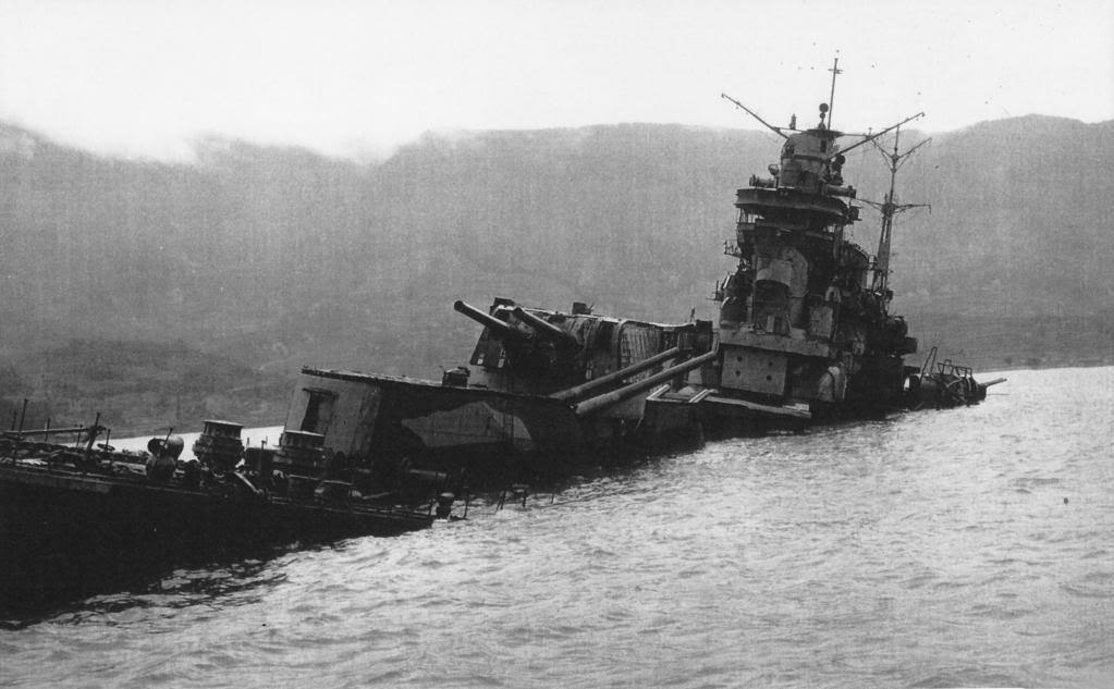 Bow of the wreckage of the Imperial japanese navy heavy cruiser Tone. She was sunk by US Navy aircraft in July 1945 off Etajima, Kure.